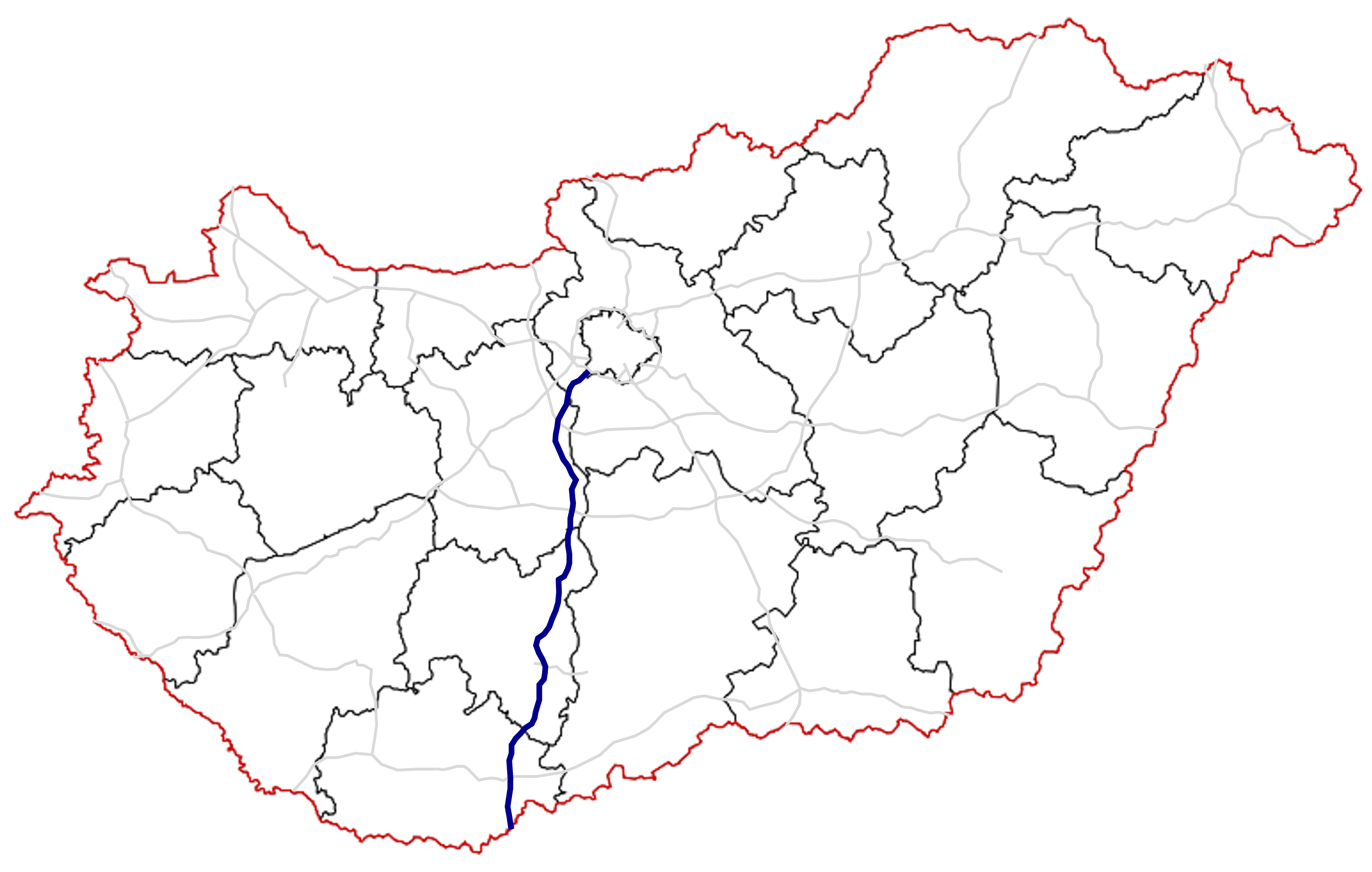 Traject the M6 Motorway, Hungary (Blue: in use, Light blue: under construction, Green: planned)